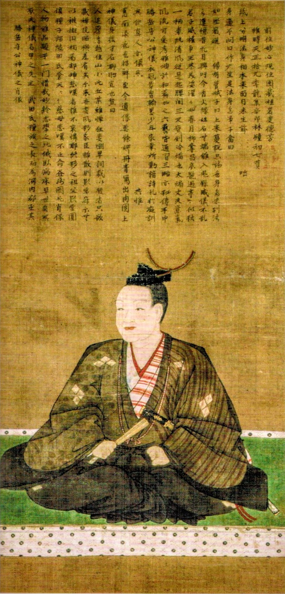 Portrait of Anayama Katsuchiyo, painted in 1591, a collection of Saionji Temple in Nanbu, Yamanashi, Japan.